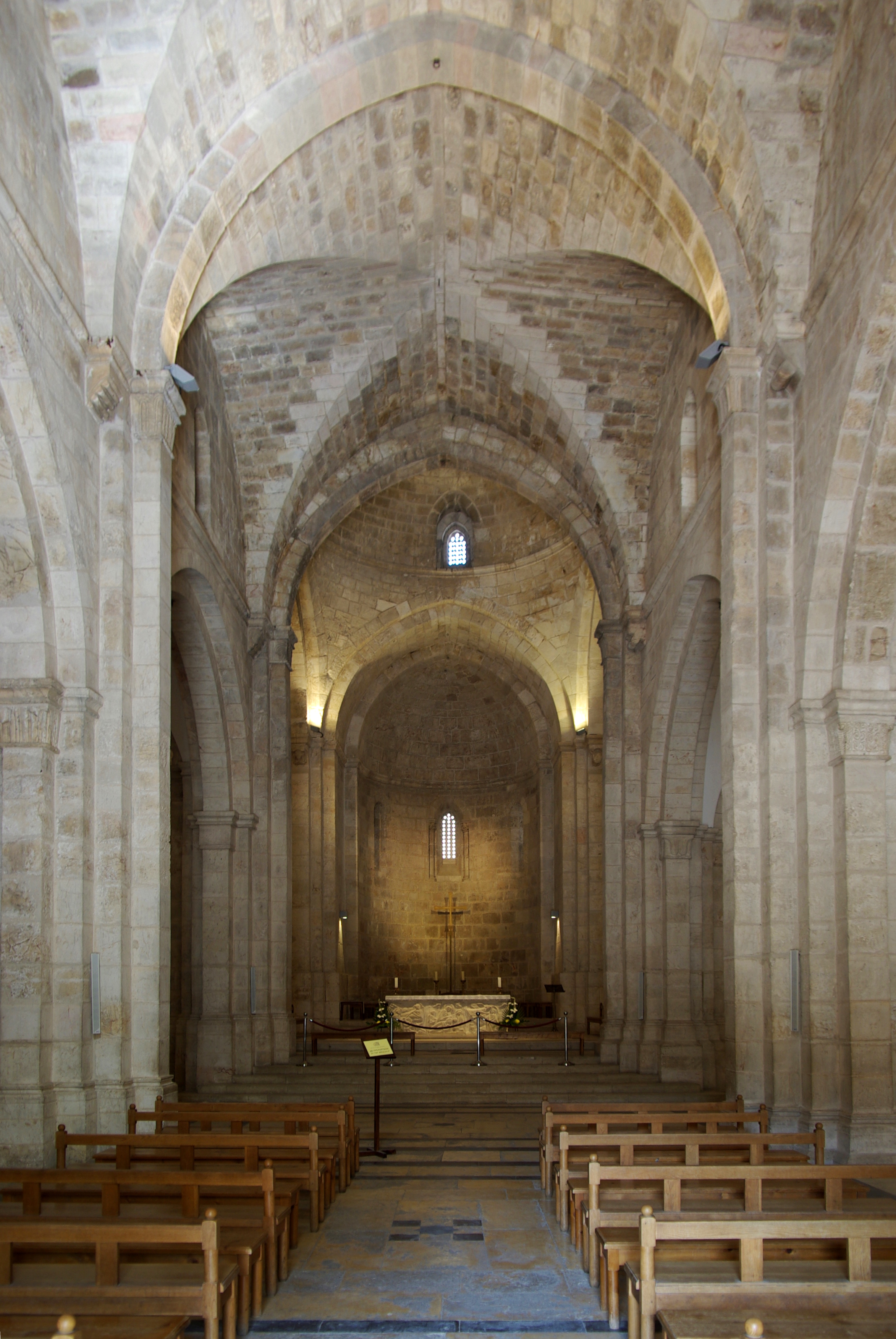 Jerusalem, St. Anna church.